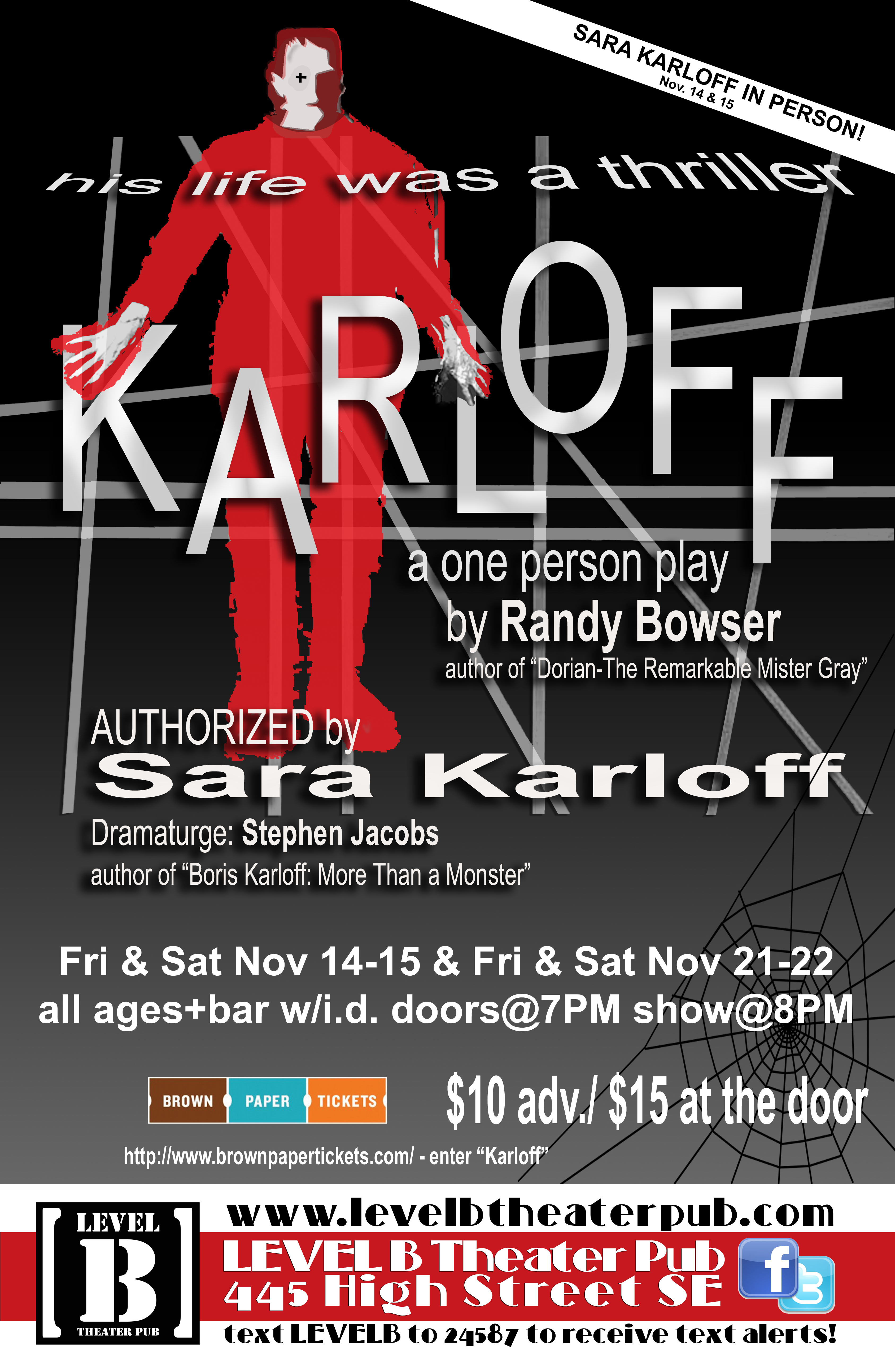 Original poster for the premiere of KARLOFF The Play which premiered in Salem, OR, Nov. 2014